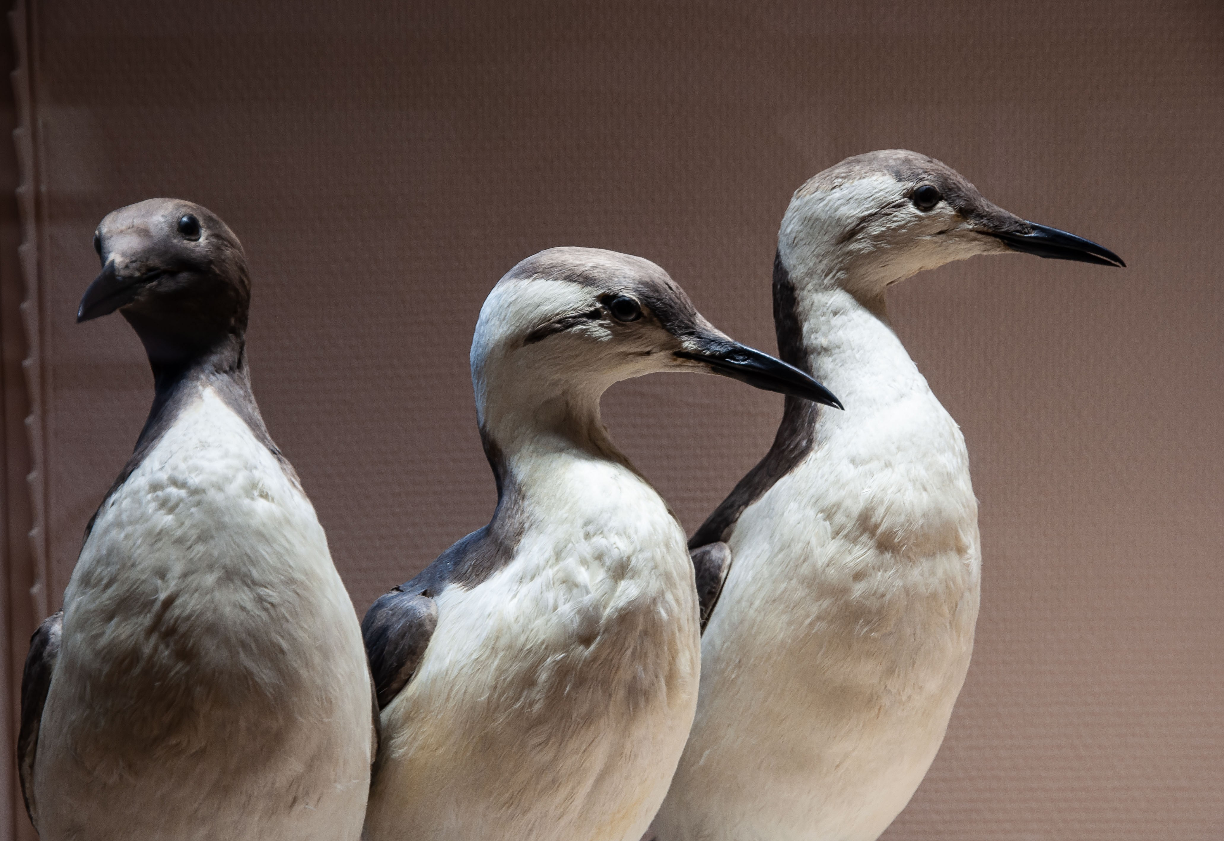 Guillemot de Troïl naturalisés exhibited in the Whale Room of the Oceanographic Museum of Monaco.